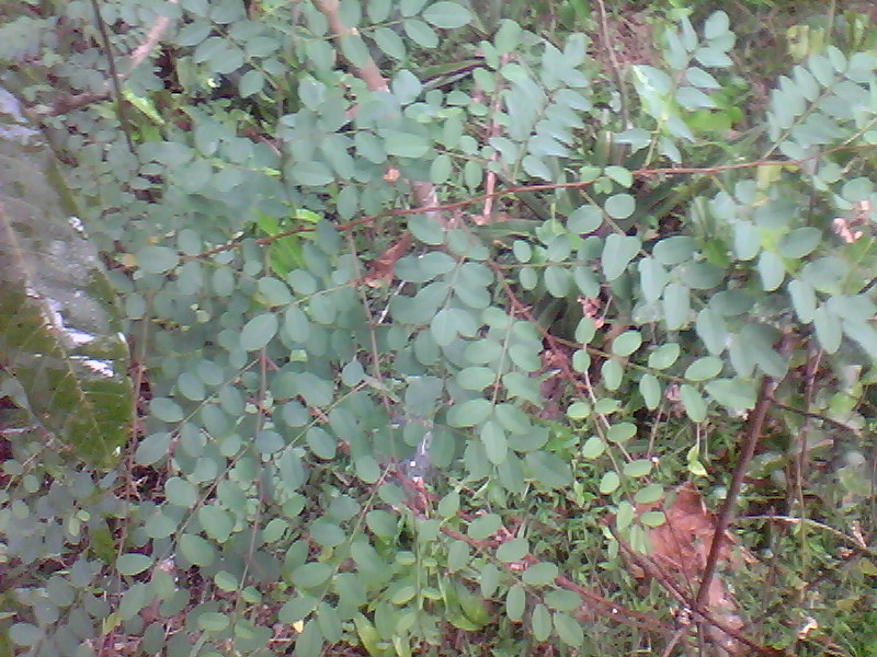 Indigo